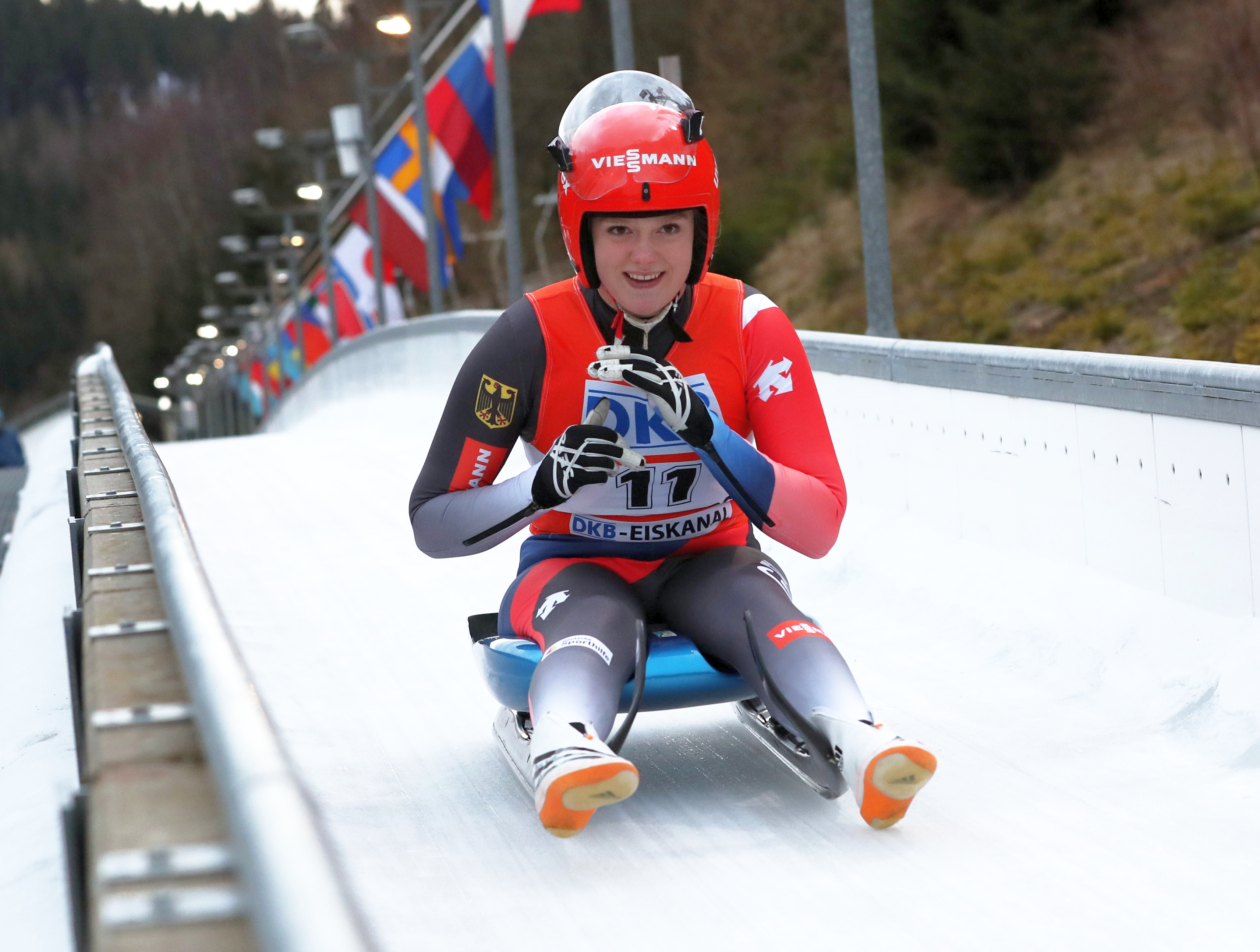 33rd Junior World Championship Luge, Altenberg 2018: Anna Berreiter